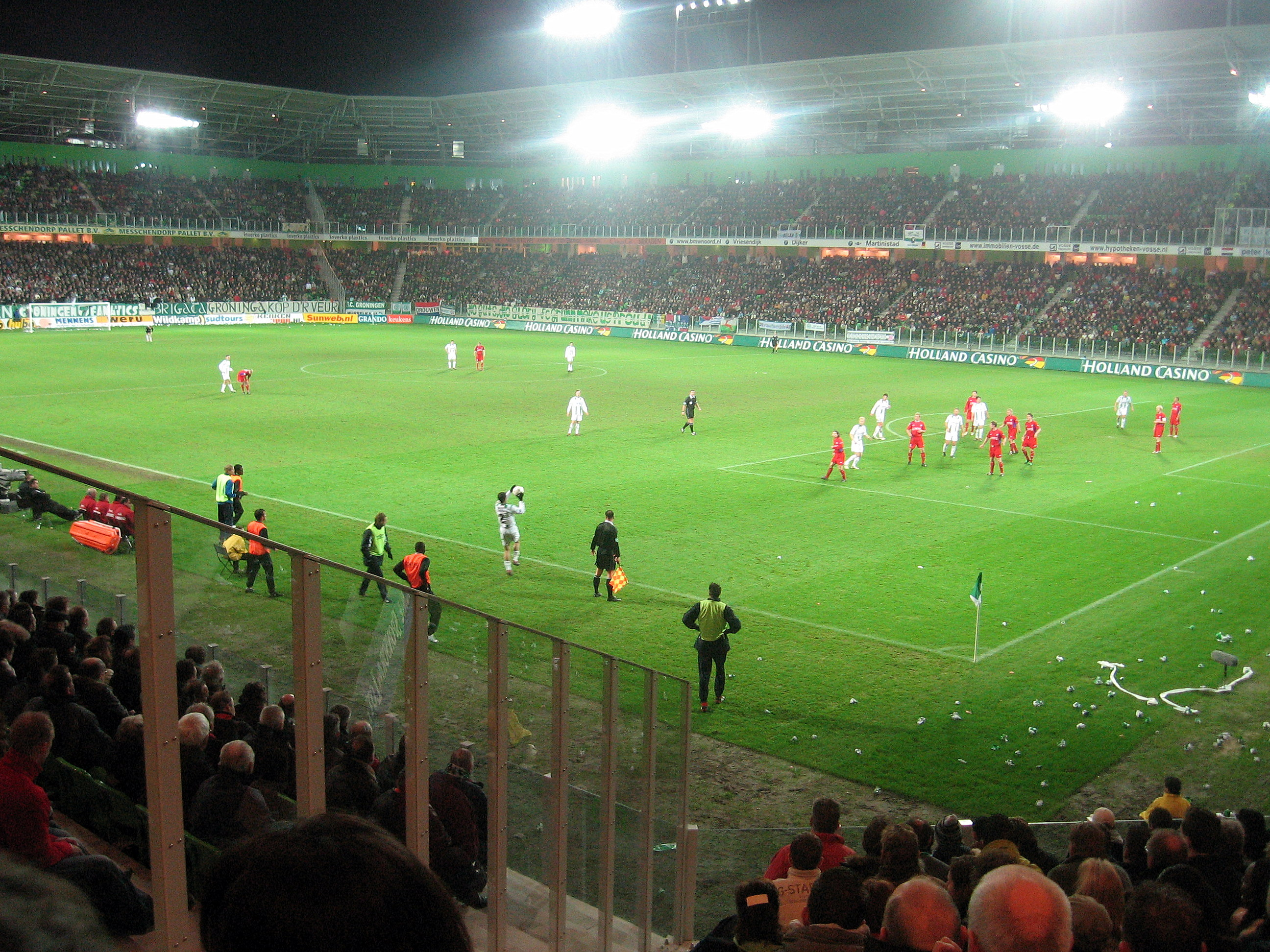 Full Euroborg during a match between FC Groningen and SC Heerenveen on 2 February 2007.